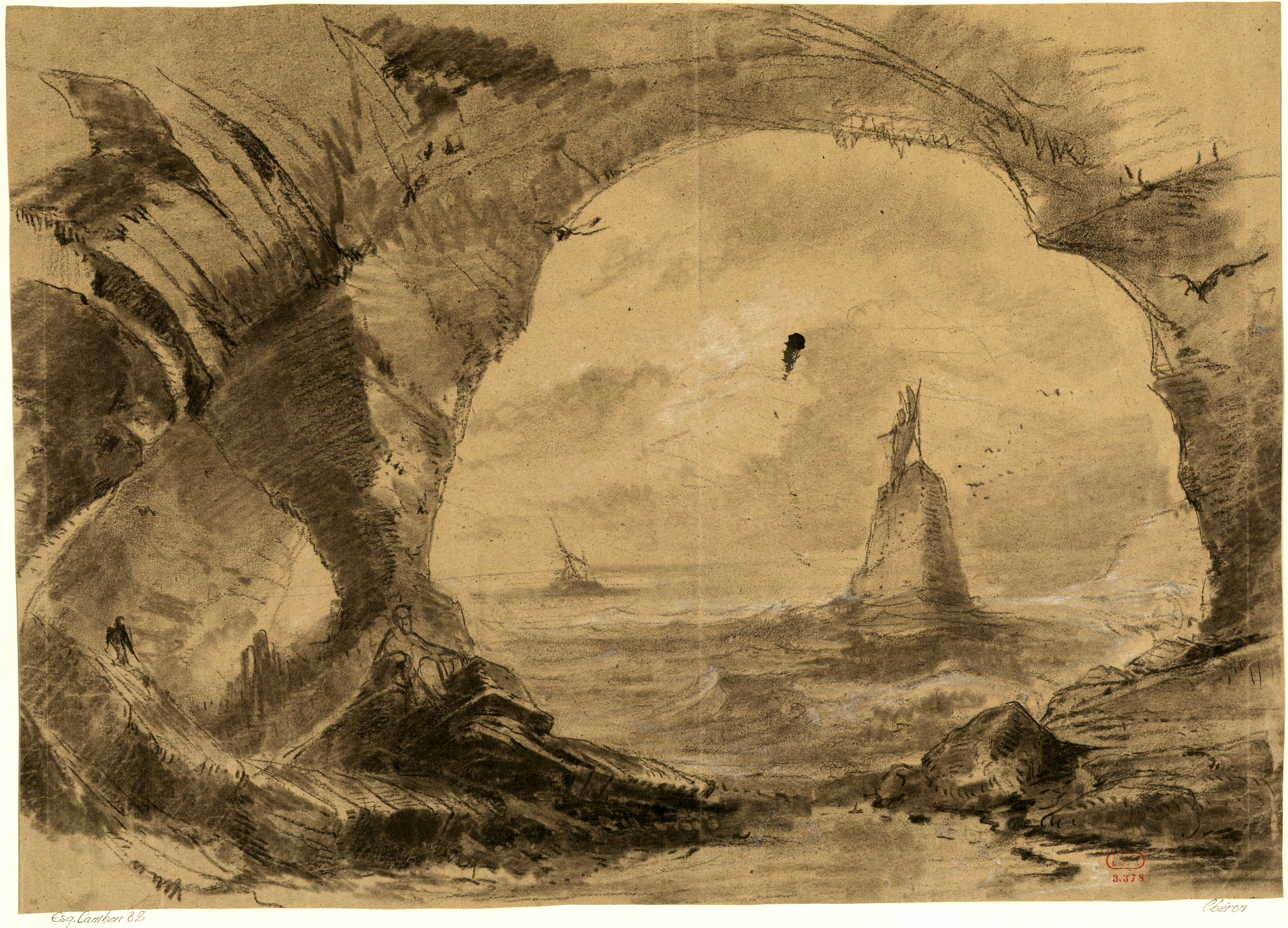 Set design for Act 2, scene 4, of Carl Maria von Weber's opera Oberon as revived by the Théâtre Lyrique in Paris on 27 February 1857